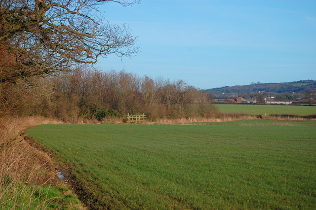 Footpath Tarvin Sands to Lower Street Farm The footpath between Tarvin Sands and Lower Street Farm on the A54. The path crosses a number of ditches where excellent footbridges are positioned.